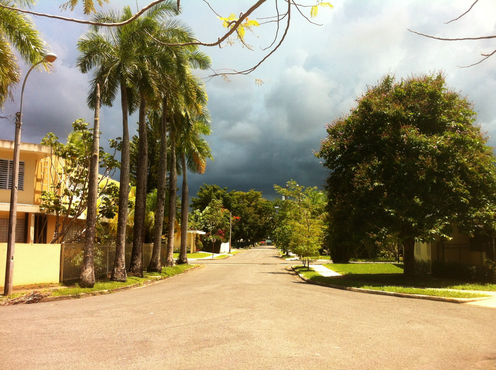 Calle Oxford, University Gardens, Rio Piedras